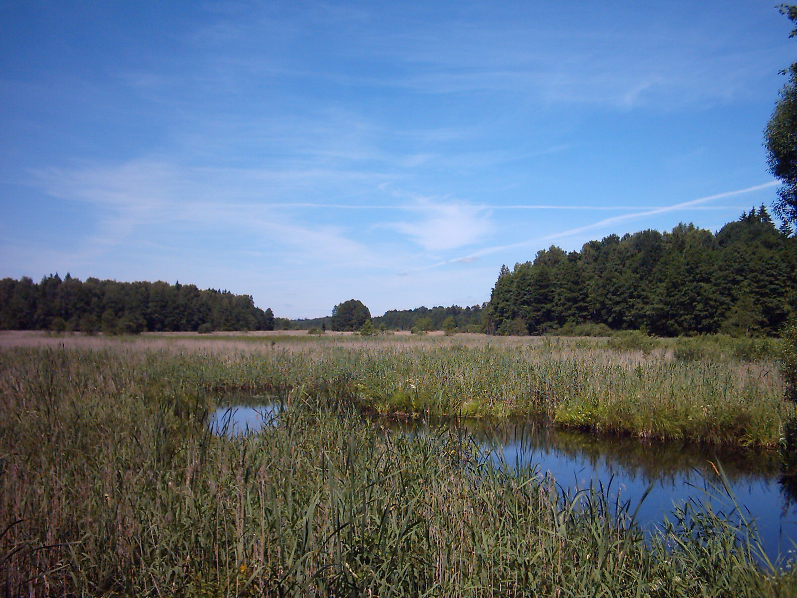 Flood water of river Leśna Prawa in Białowieża Forest